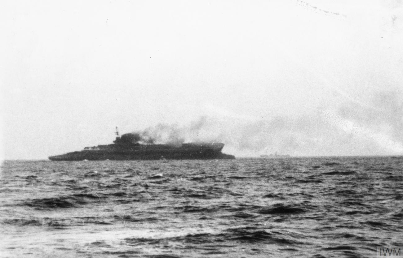 Shipping losses: HMS COURAGEOUS sinking after being torpedoed by German submarine U 29.